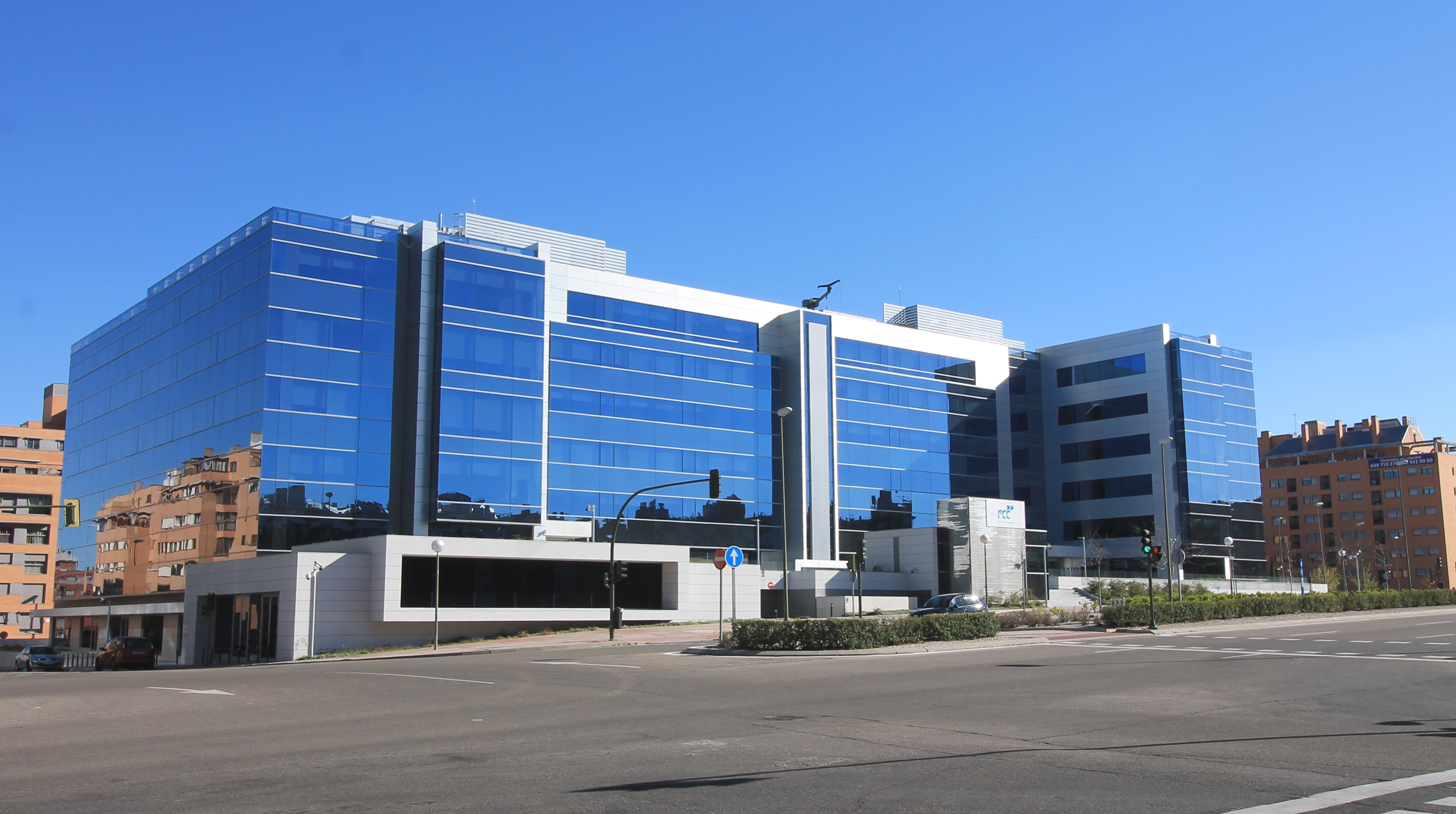 Façade of FCC offices in Madrid (Spain).